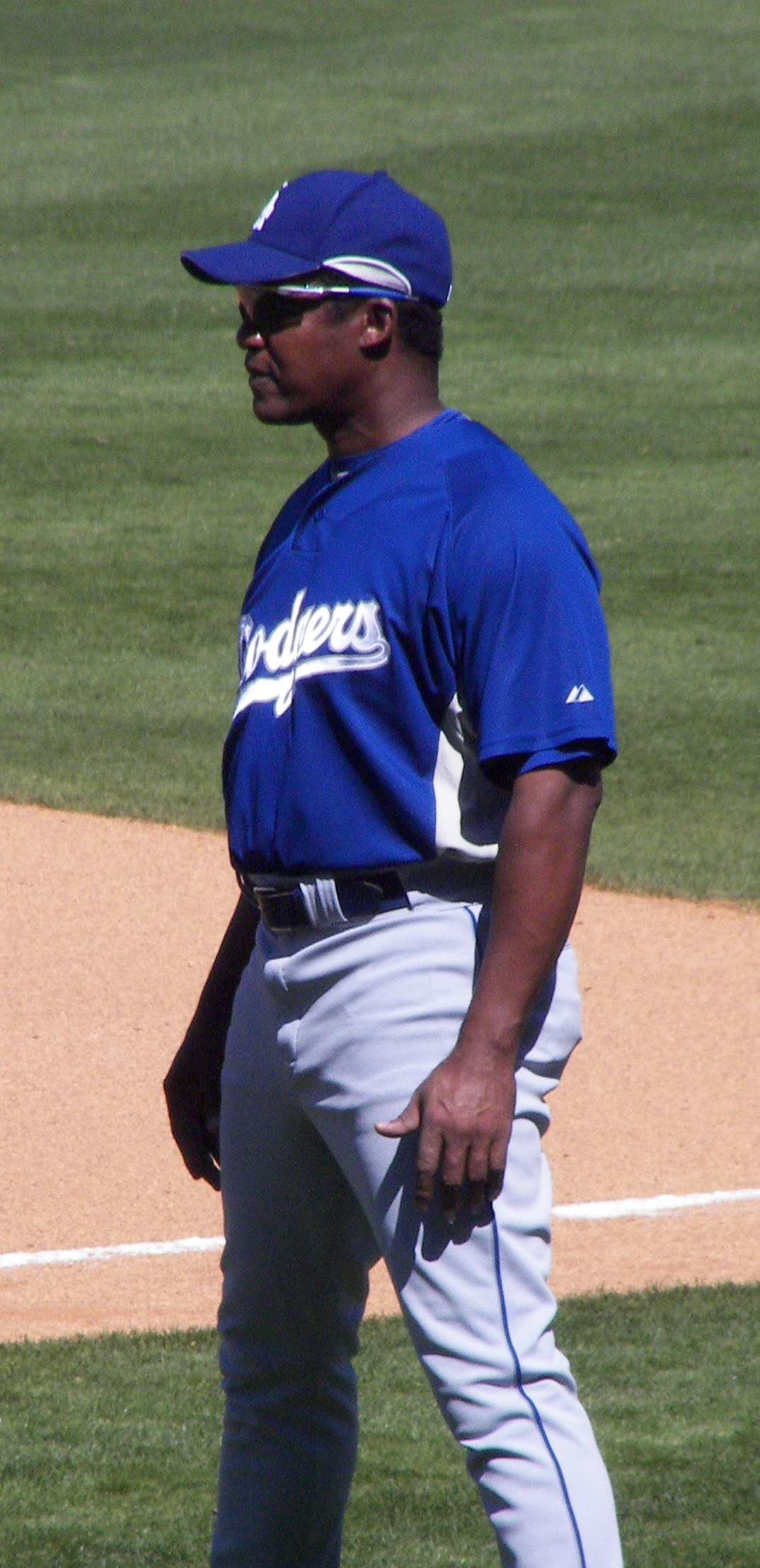 Los Angeles Dodgers first base coach Mariano Duncan during a Dodgers/Boston Red Sox spring training game at City of Palms Park in Fort Myers, Florida.